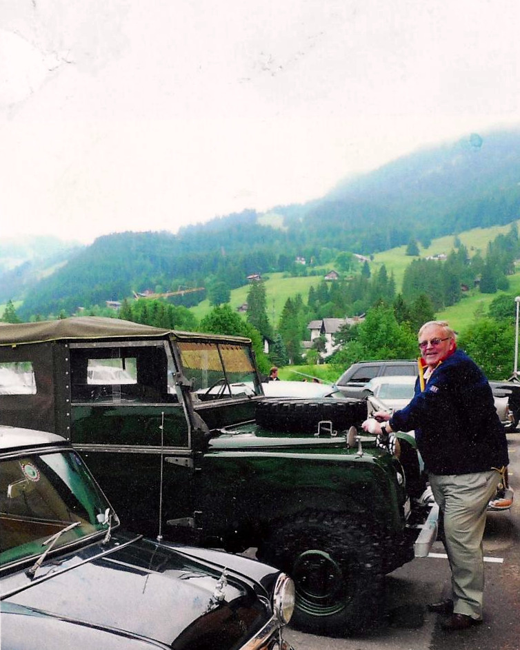 1952 landrover on rally in Swiss mountains 2013